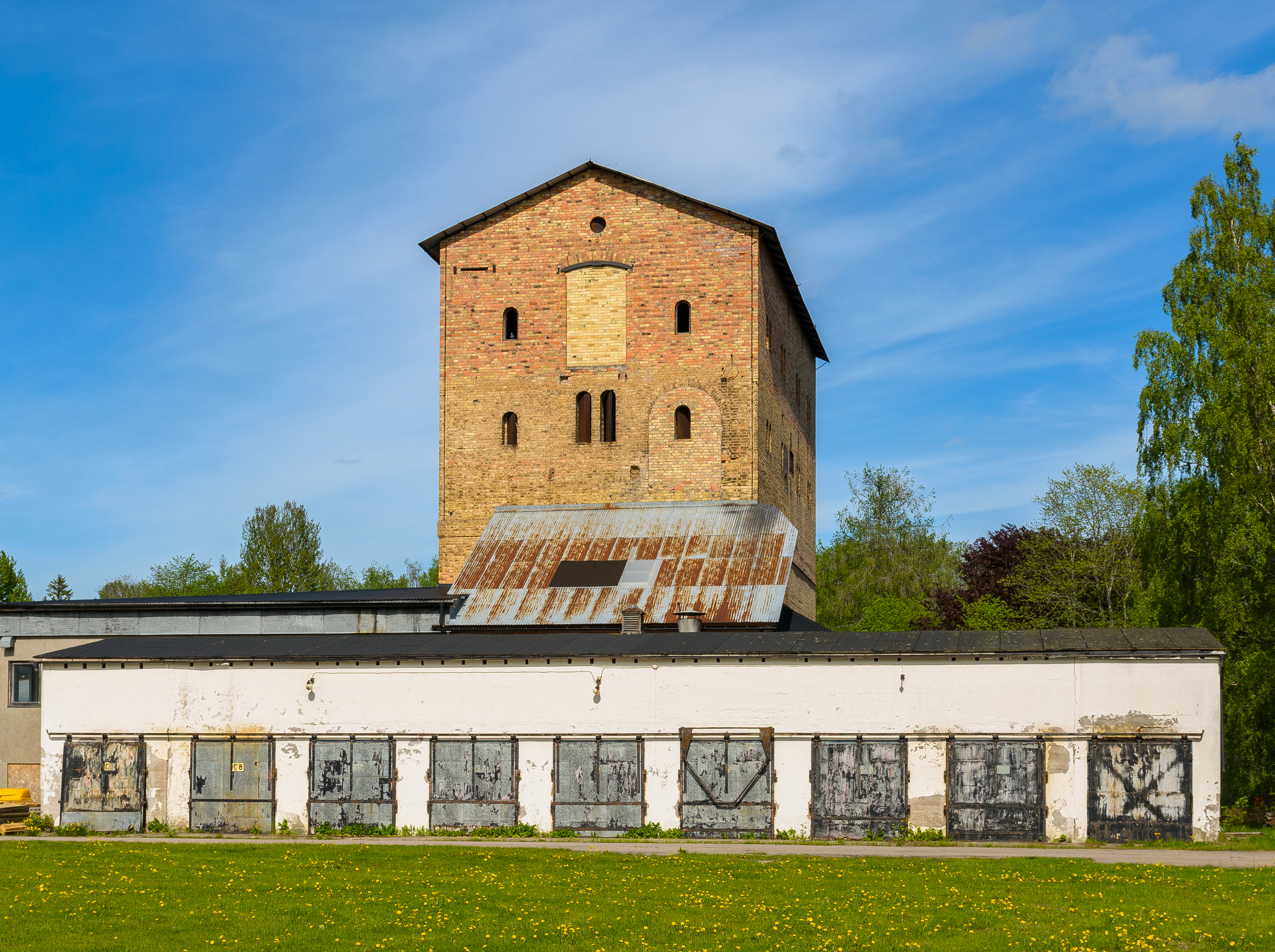 Former iron mill (Tobo bruk) in Tobo. Tobo is a locality and former iron mill situated in Tierp Municipality, Uppsala County, Sweden